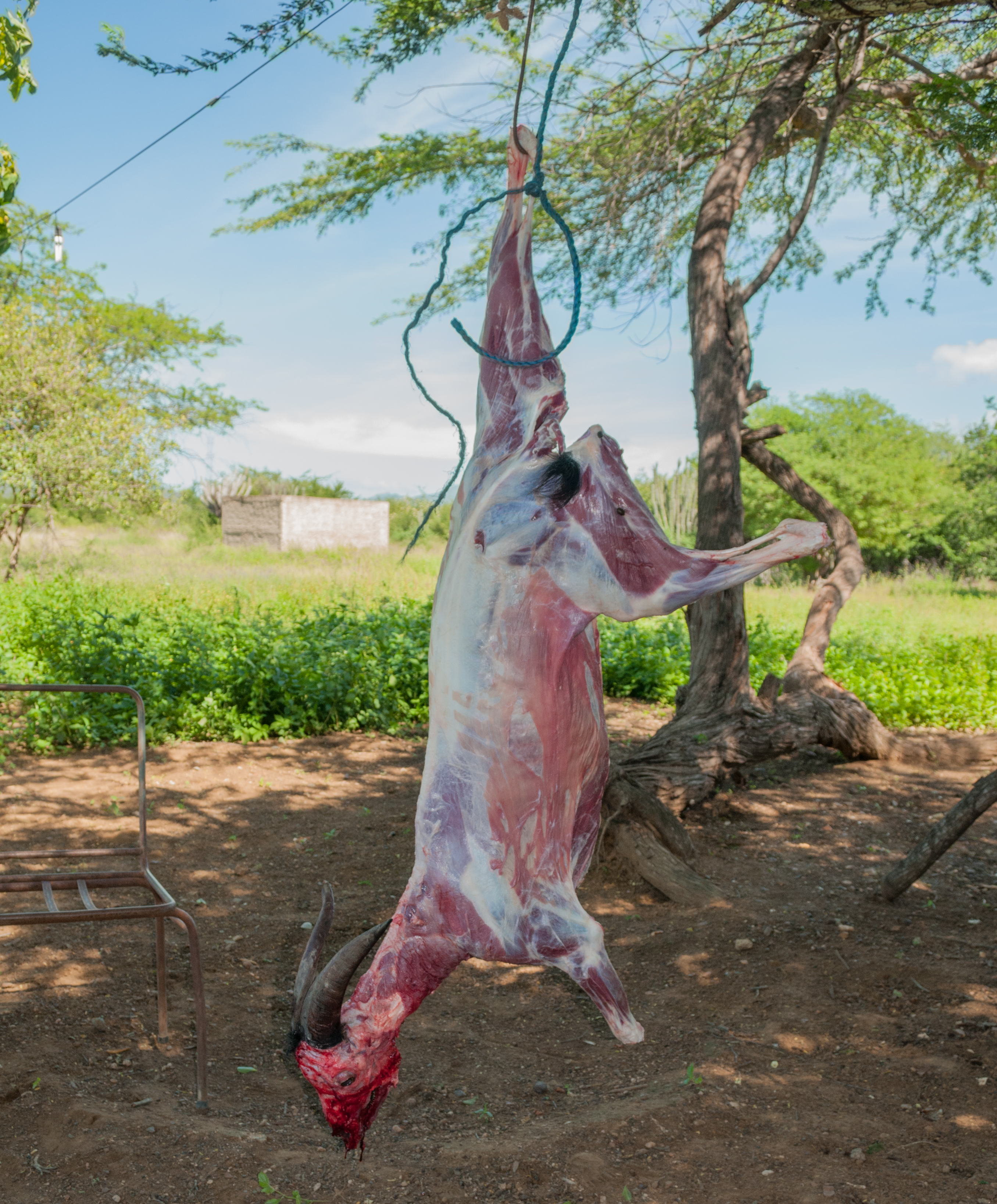 Goat flayed for Christmas